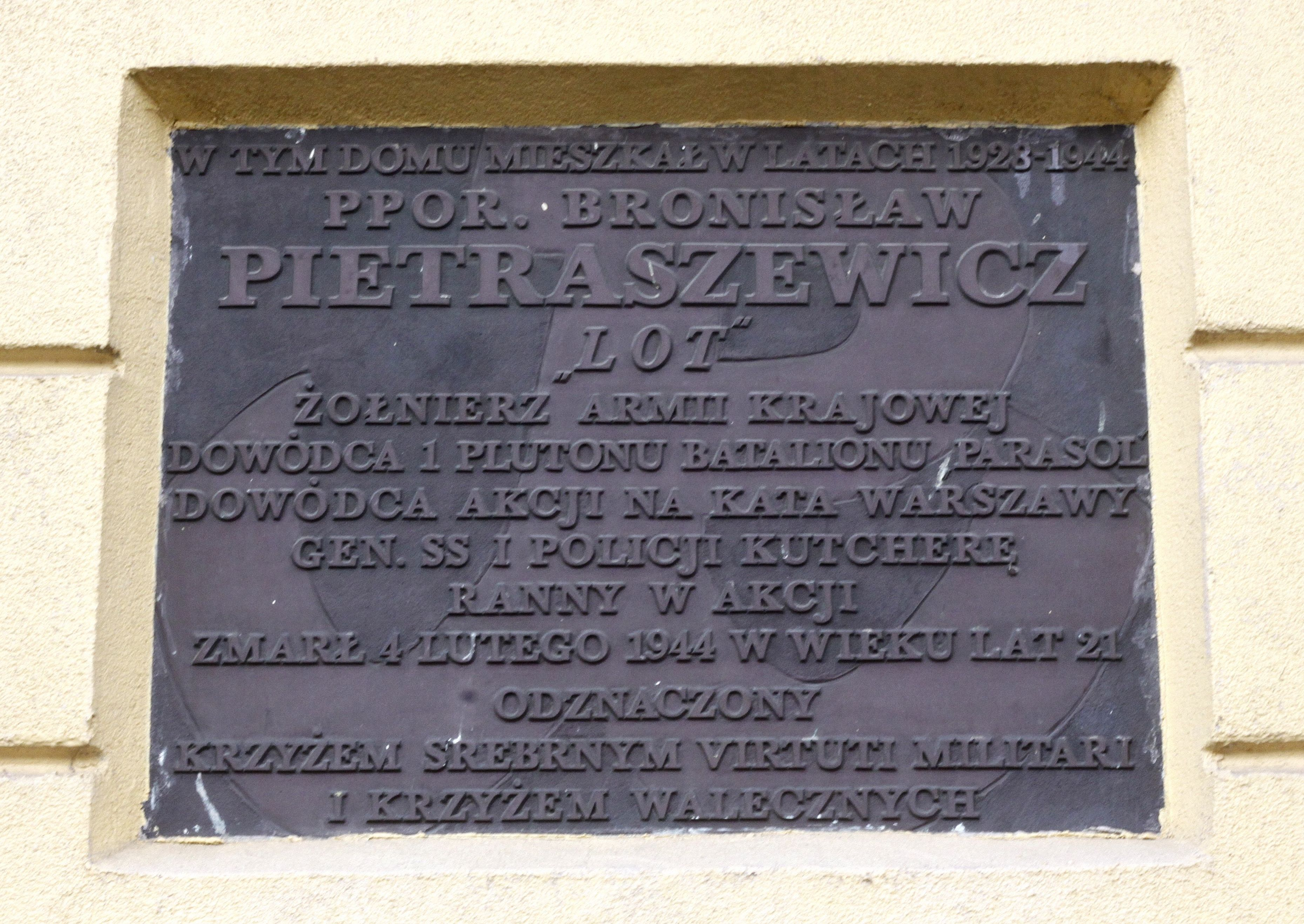 Memorial plaque for Bronisław Pietraszewicz "Lot" at 38/46 Słowackiego Street in Warsaw